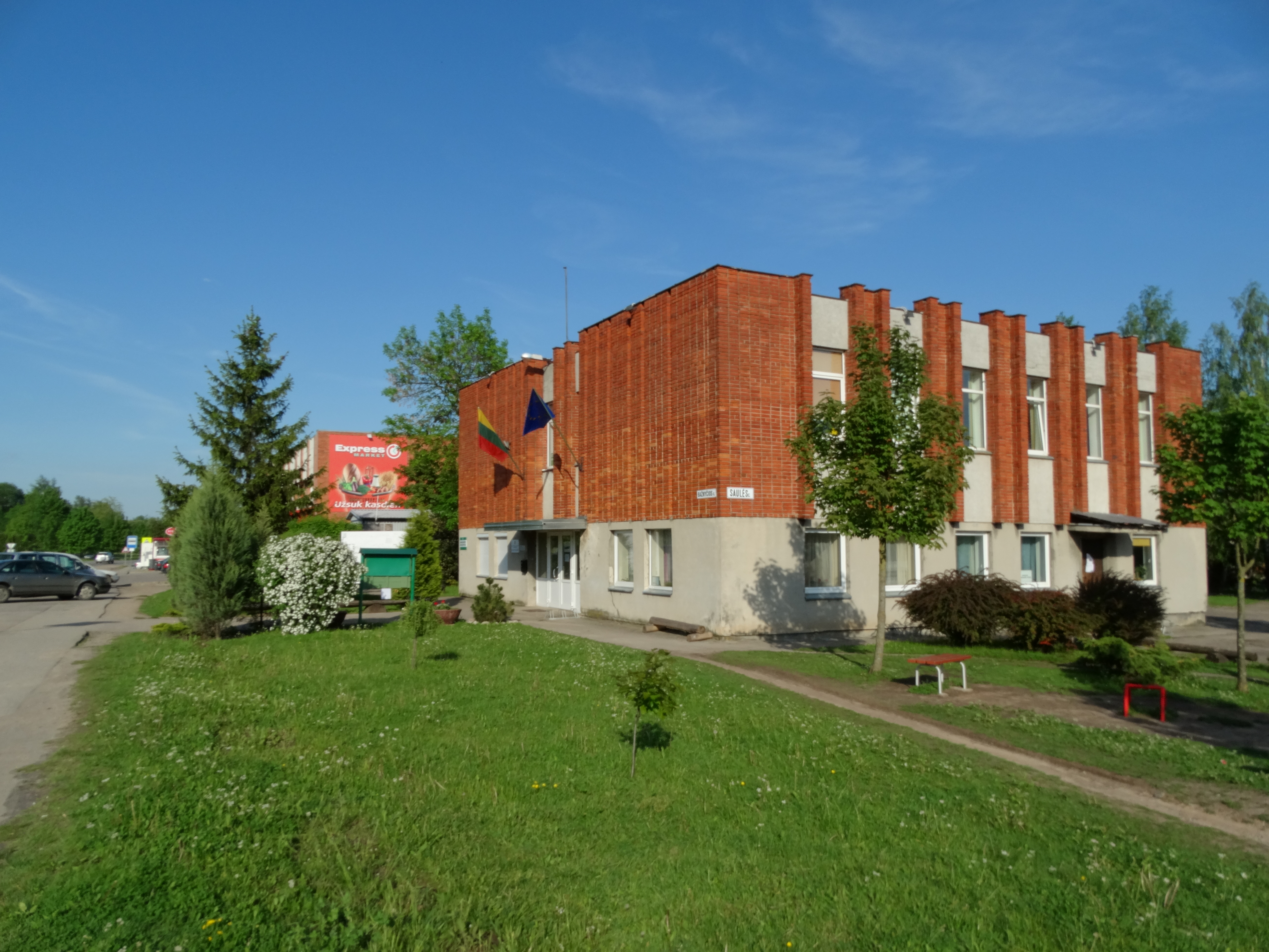 Eldership, Domeikava, Lithuania